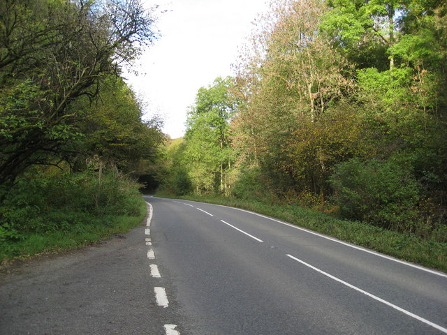 Via Gellia (A5012) - Passing through Griffe Grange Valley in the direction of Grangemill